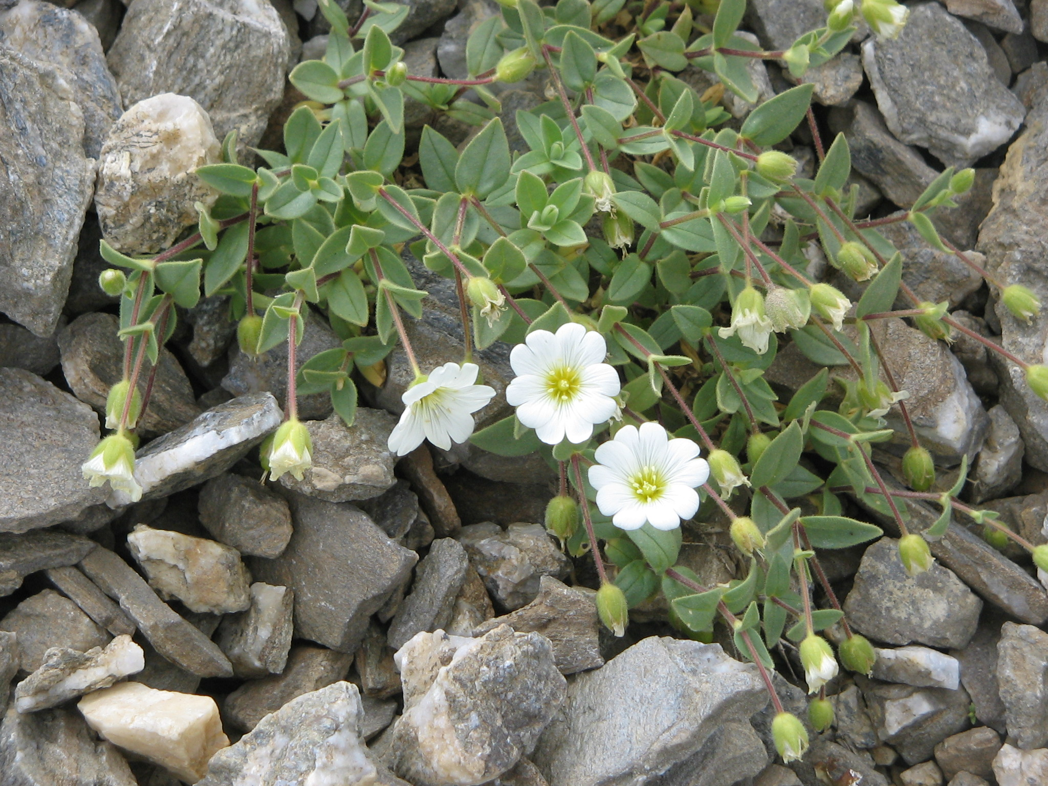 Cerastium alpinum